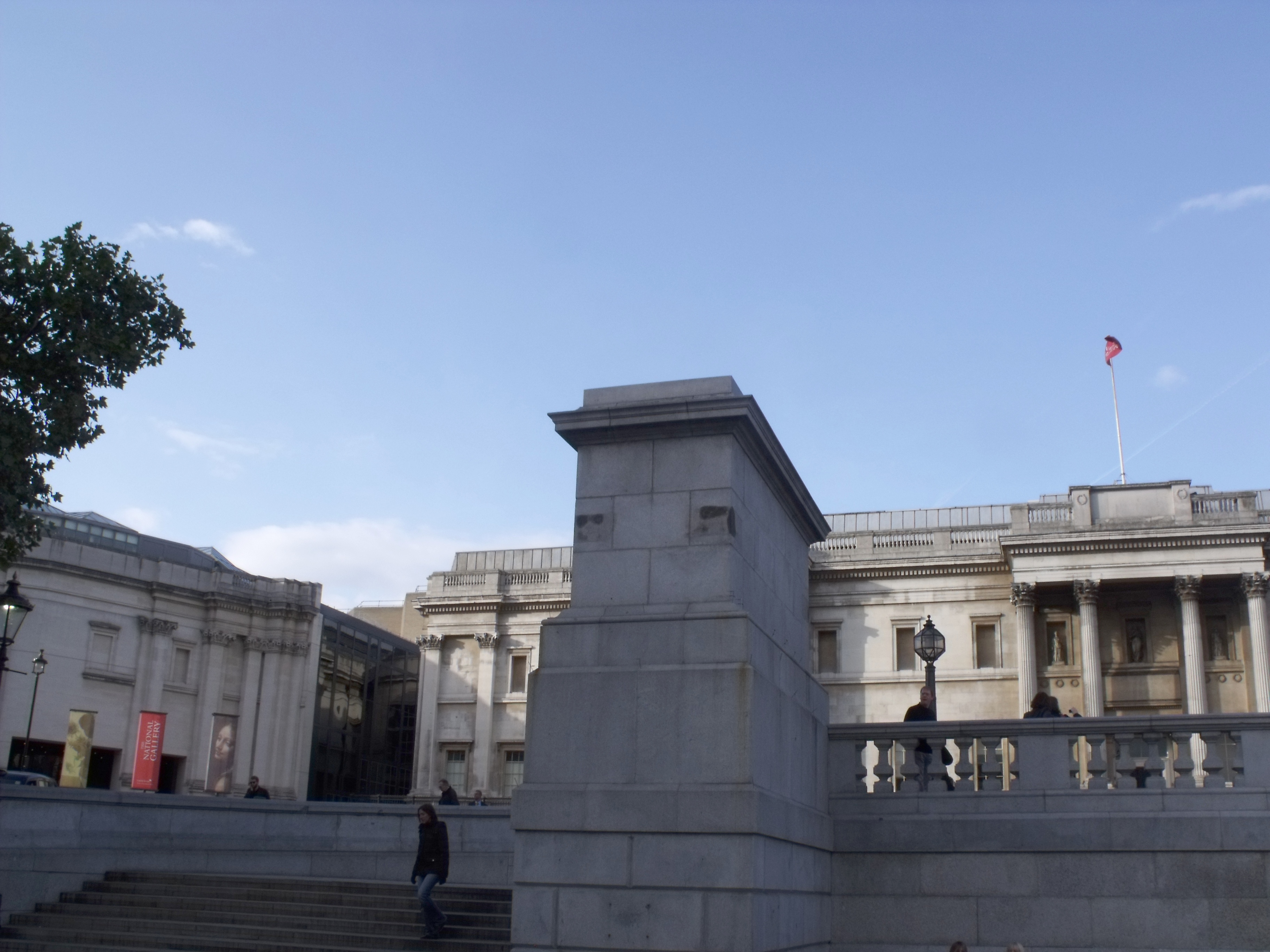 This is the unused Fourth Plinth in Trafalgar Square. It is in the north west corner of the square, in front of The National Gallery. I believe that the 100 day One & Other by Anthony Gormley ended two days before I took this (didn't want any random person standing on it anyway).